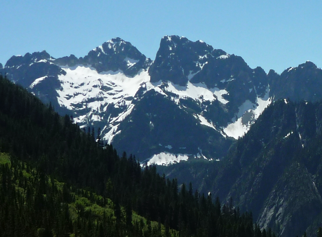 Glory Mountain (left) and Halleluja Peak (right) seen from Horseshoe Basin. North Cascades